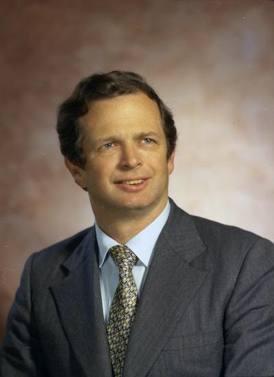 Representative Donn Charnley, 1971